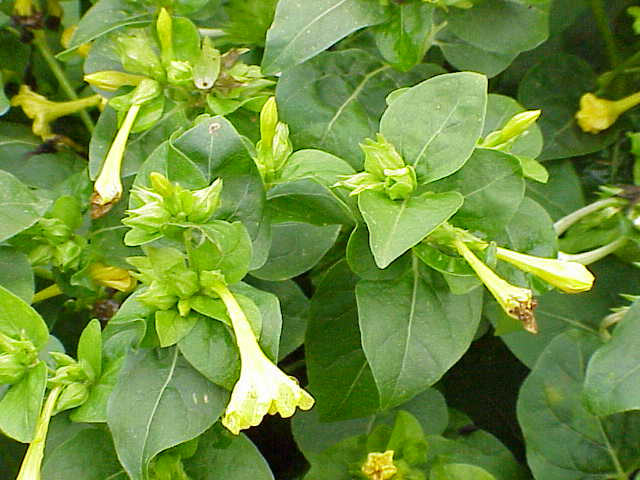 Species: Mirabilis jalapa Family: Nyctaginaceae Image No. 2